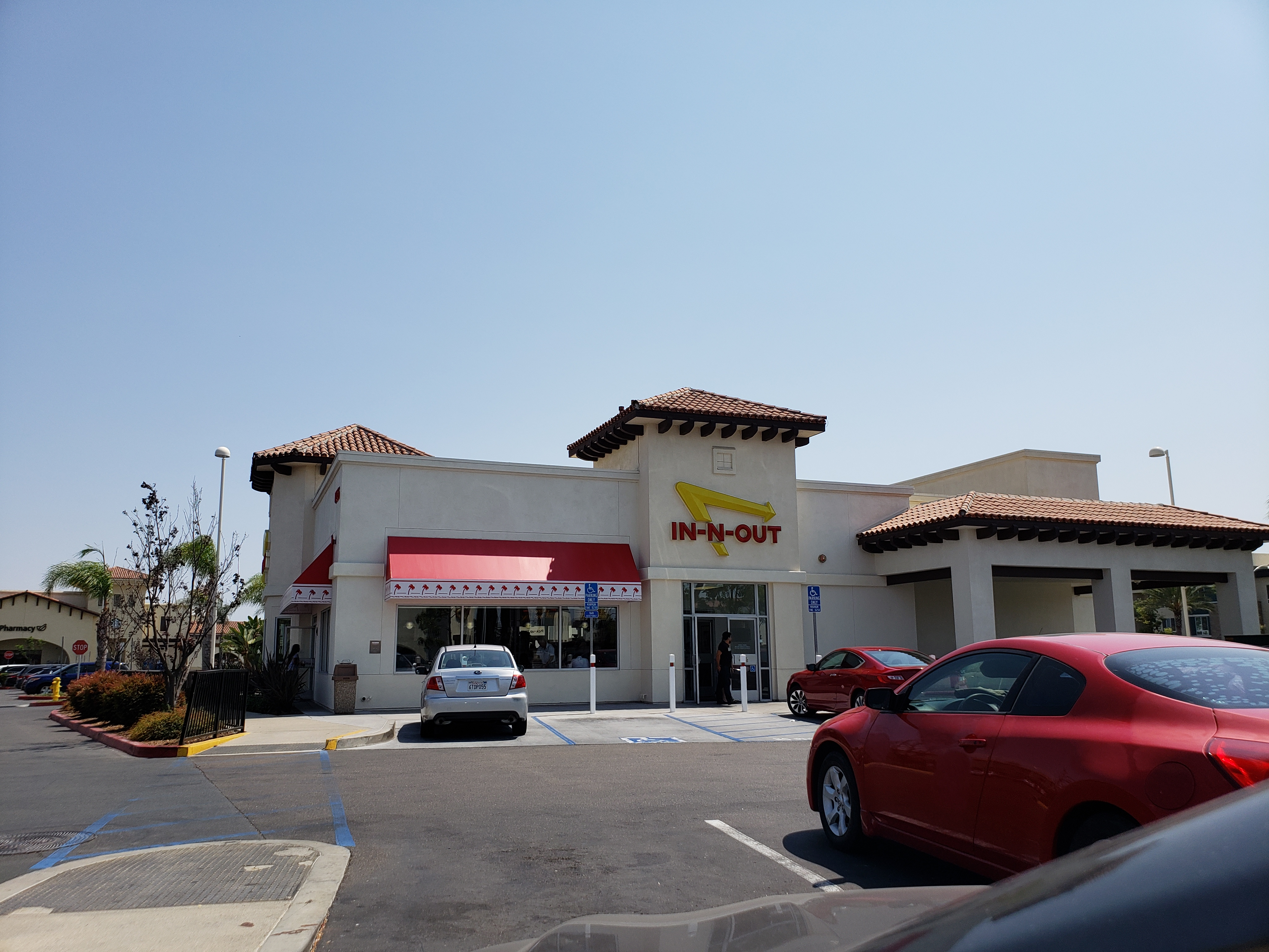 In-n-Out Burger location in the Eastlake neighborhood of Chula Vista